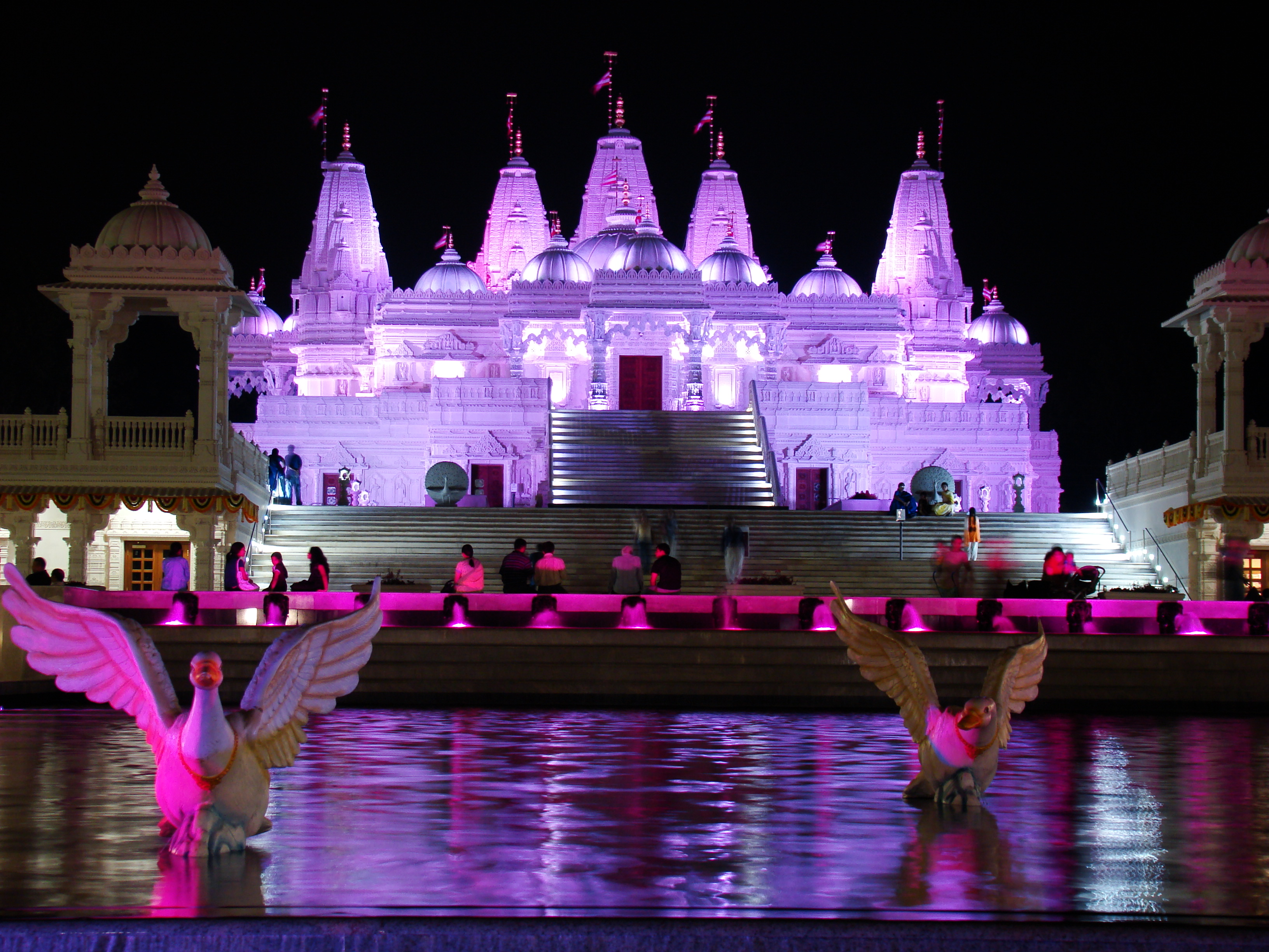 BAPS Temple night lighting scene. Panoramio link below shows its location